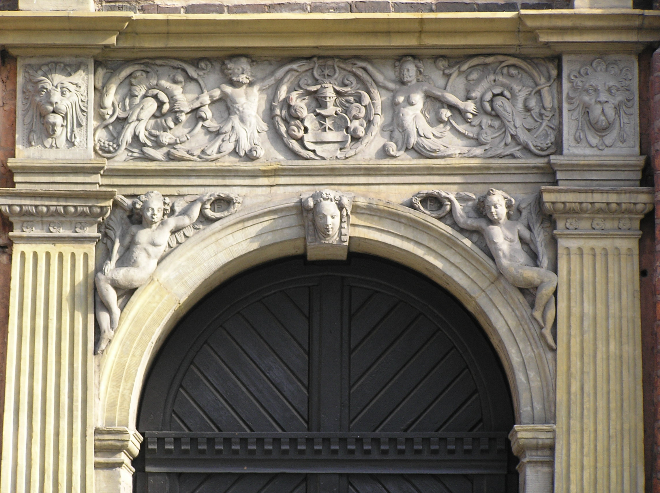 Toruń, Eskens House, upper part of the main portal.